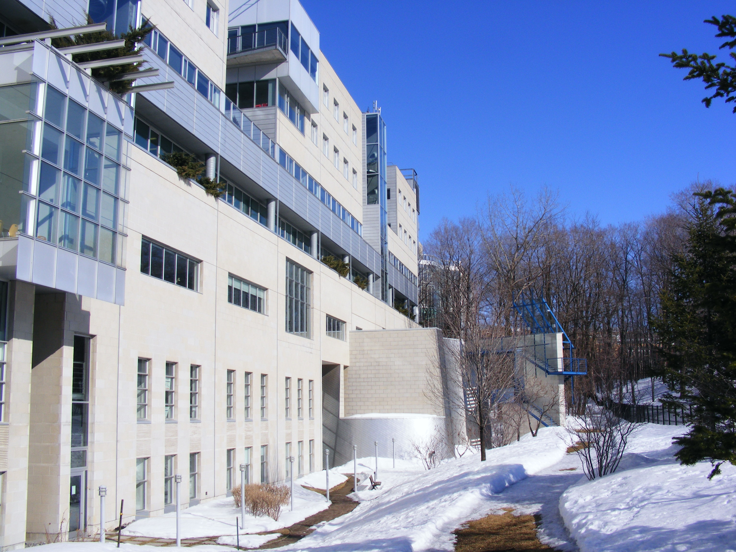 HEC Montreal, view by the side